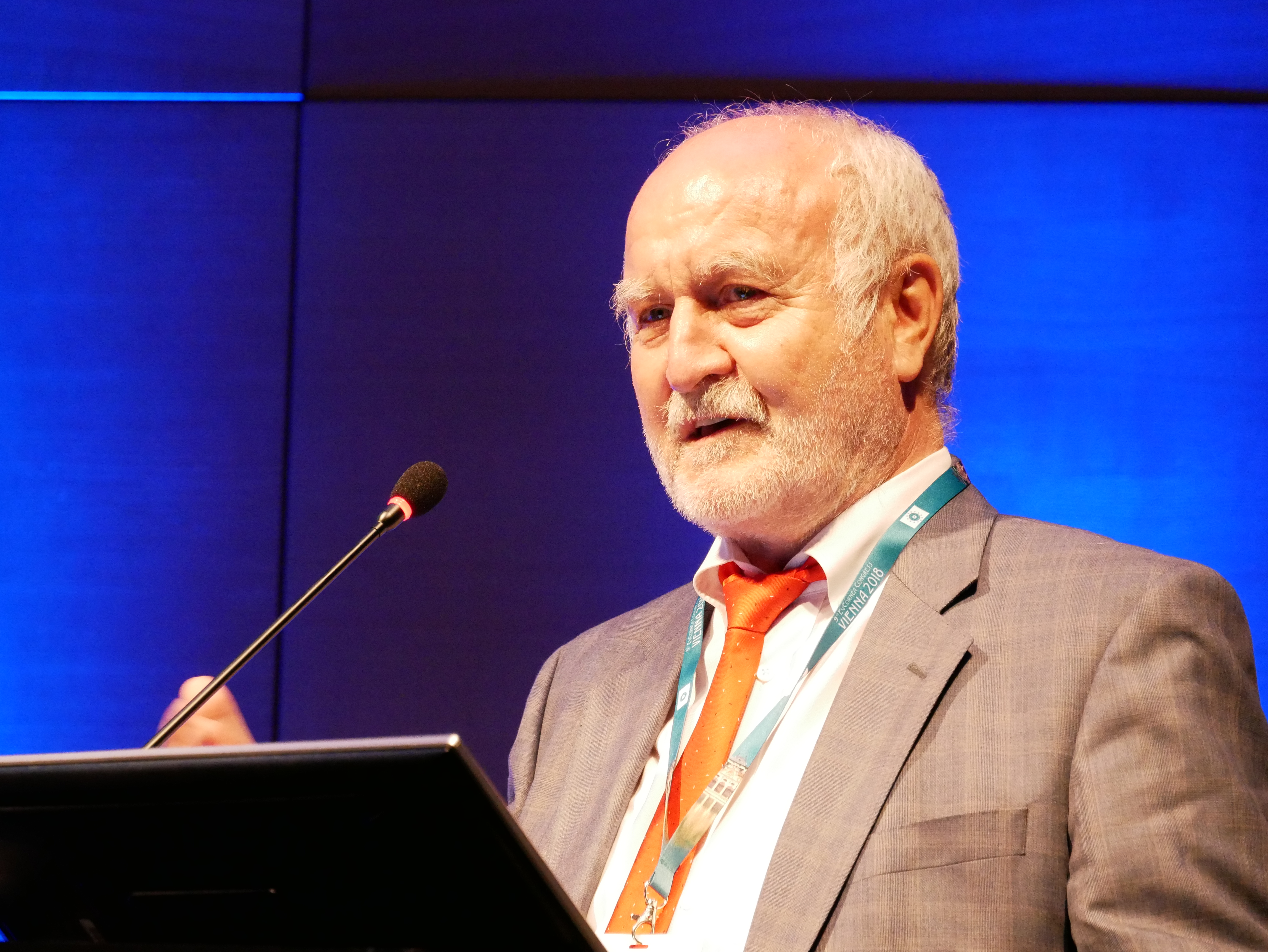 Theo Seiler on the podium at ESCRS 2018 in Vienna